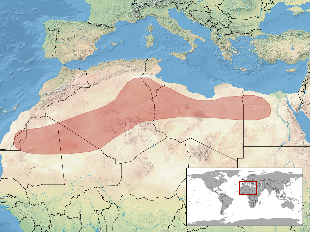 geographic distribution of Tropiocolotes tripolitanus (Native: Algeria; Egypt; Libya; Mali; Mauritania; Niger; Tunisia; Western Sahara)